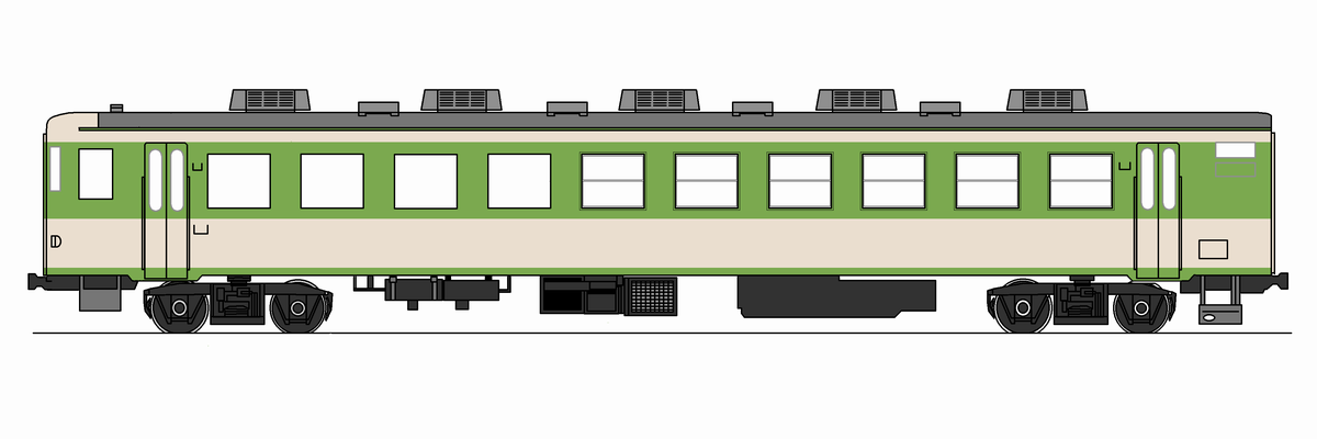 The side view of the Passenger Car(Brake_van) series 12 "Shirakaba" of JNR.